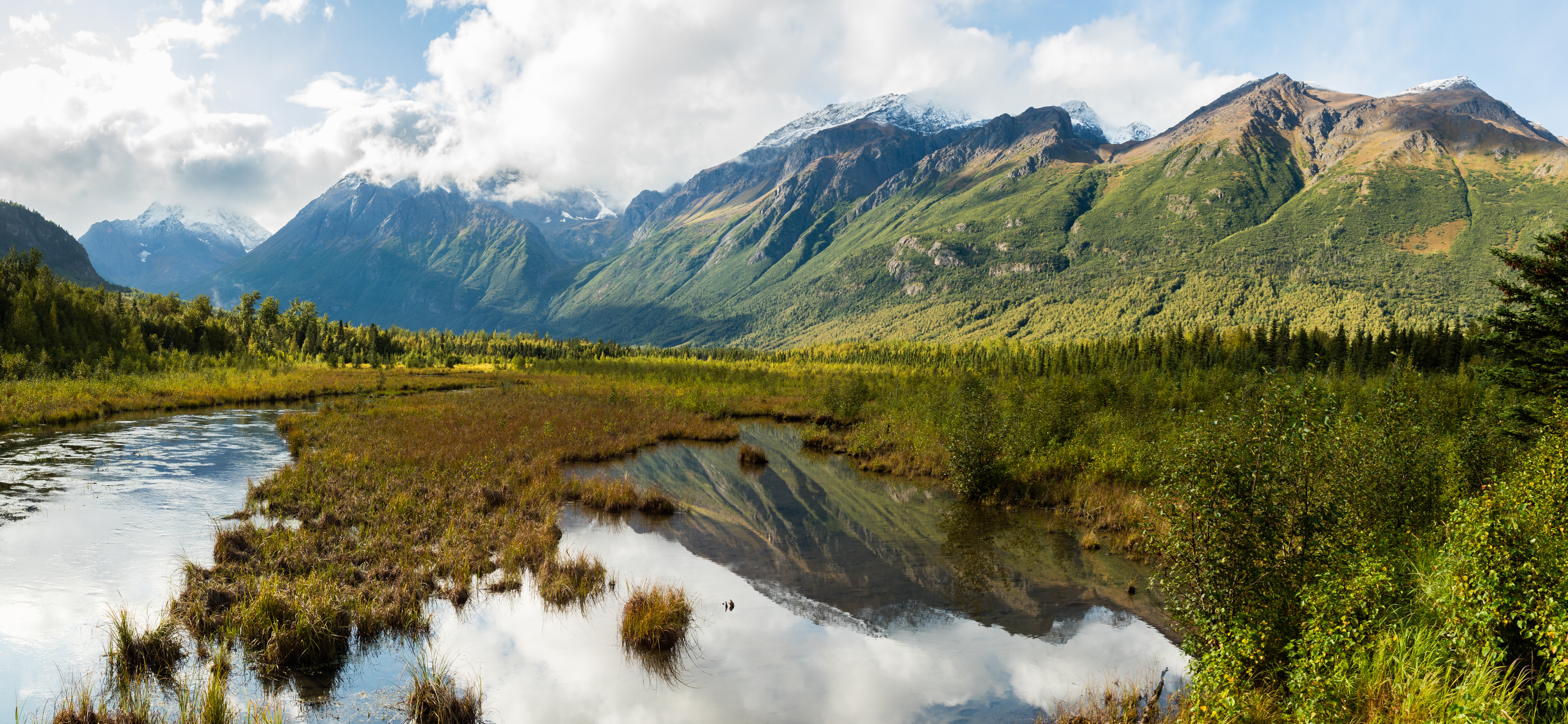 Eagle River Park, Anchorage, Alaska, United States.